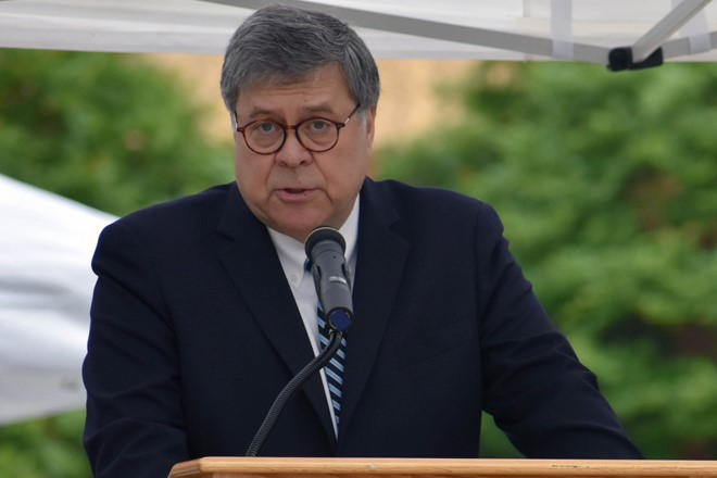 Attorney General William P. Barr delivered remarks on Wednesday, May 8, 2019, at the Correctional Workers Week Memorial Service.